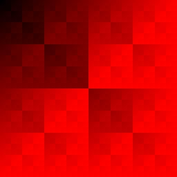 Binary pattern color = x or y. Created by Black Phoenix (Phoenix Black on Wikipedia)